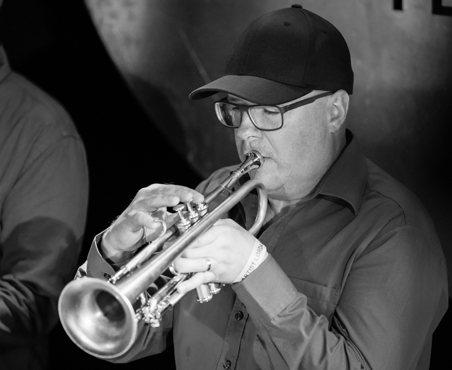 Magnus Broo in a concert with Trondheim Jazz Orchestra + Atomic in Energimølla. The concert was part of Kongsberg Jazzfestival and took place on 03. July 2019 in Kongsberg. Lineup:Magnus Broo (trumpet)Fredrik Ljungkvist (saxophone and clarinet)Håvard Wiik (piano)Ingebrigt Håker Flaten (double bass)Hans Hulbækmo (drums)Signe Krunderup Emmeluth (alto saxophone)Per Texas Johansson (tenor saxophone)Hild Sofie Tafjord (french horn)Ole Jørgen Melhus (trombone)Ola Kvernberg (violin)Lene Grenager (cello)Kyrre Laastad (drums and percussion)